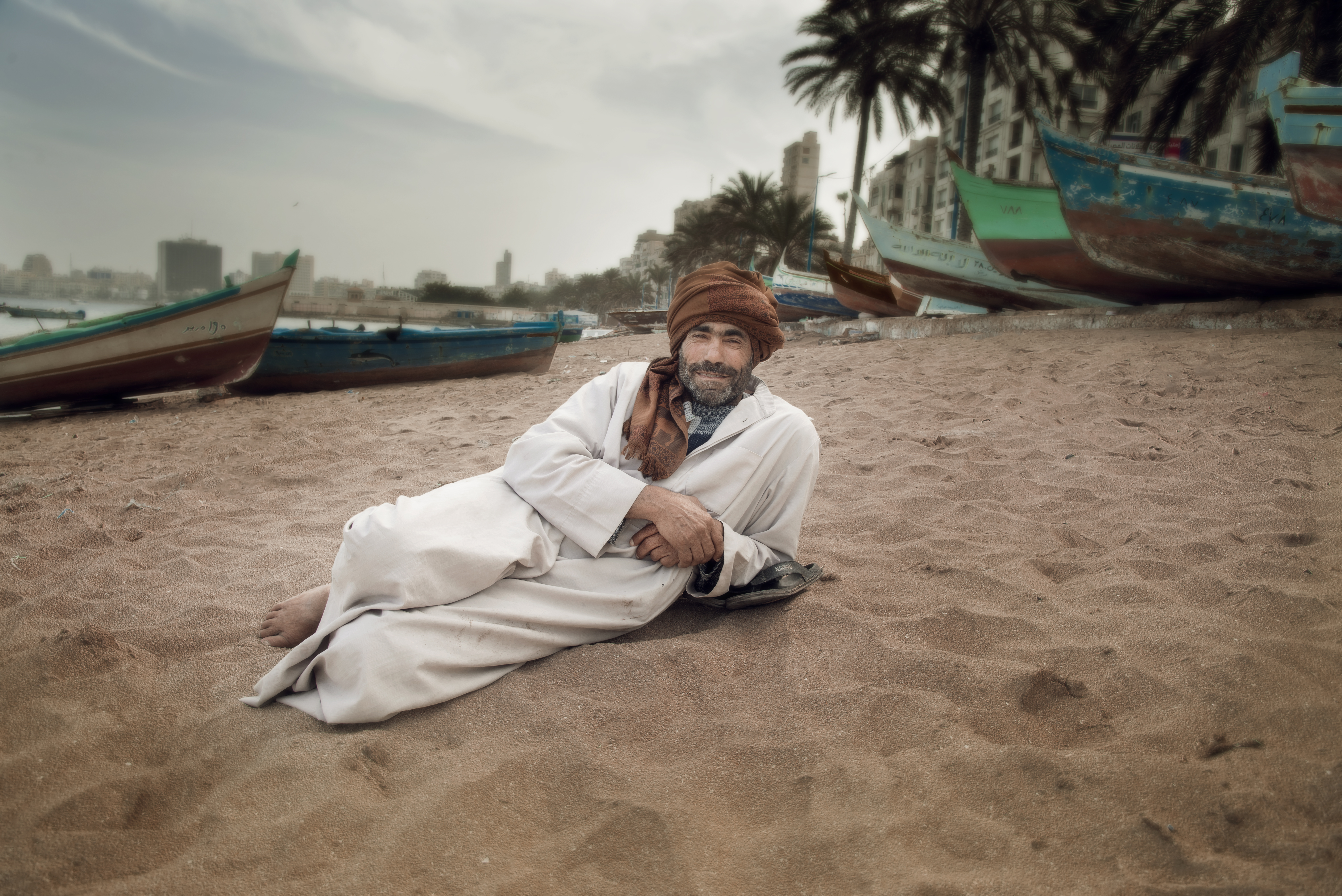 This is an image with the theme "Africa on the Move or Transport" from: Egypt